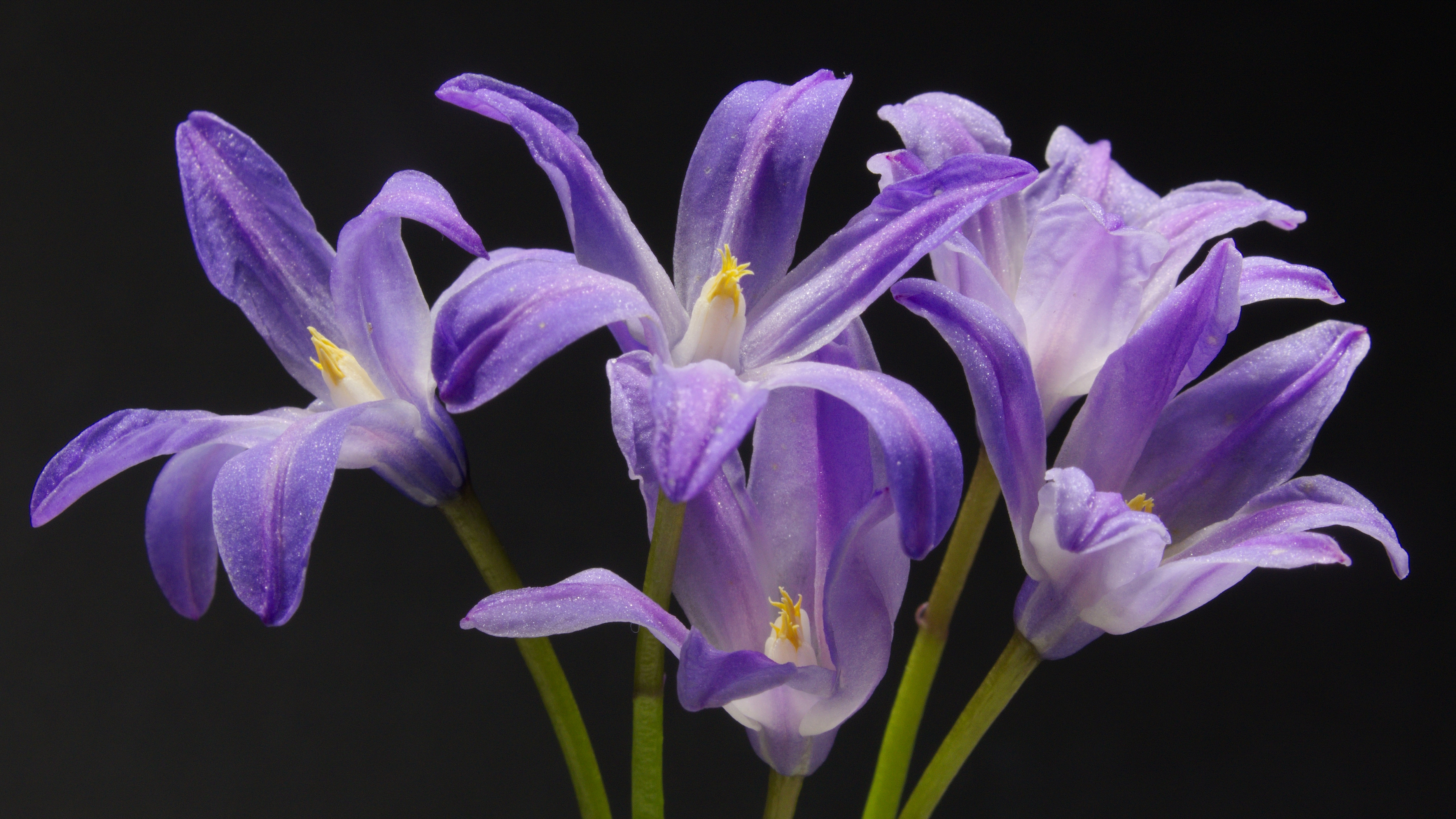 Flowers of Scilla luciliae. Diameter of flowers is from 25 to 30 mm.